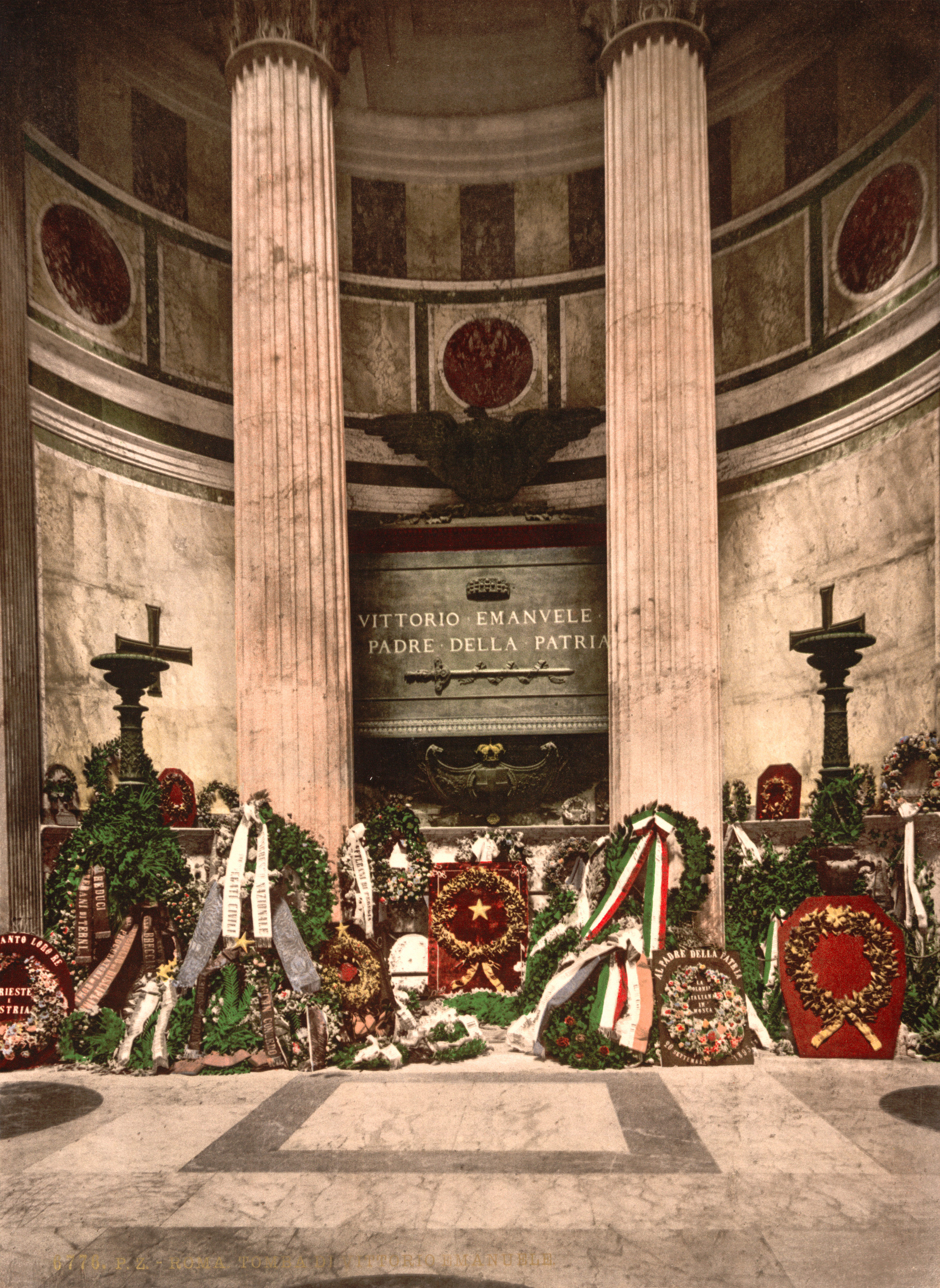 Tomb of Victor Emmanuel Rome Italy